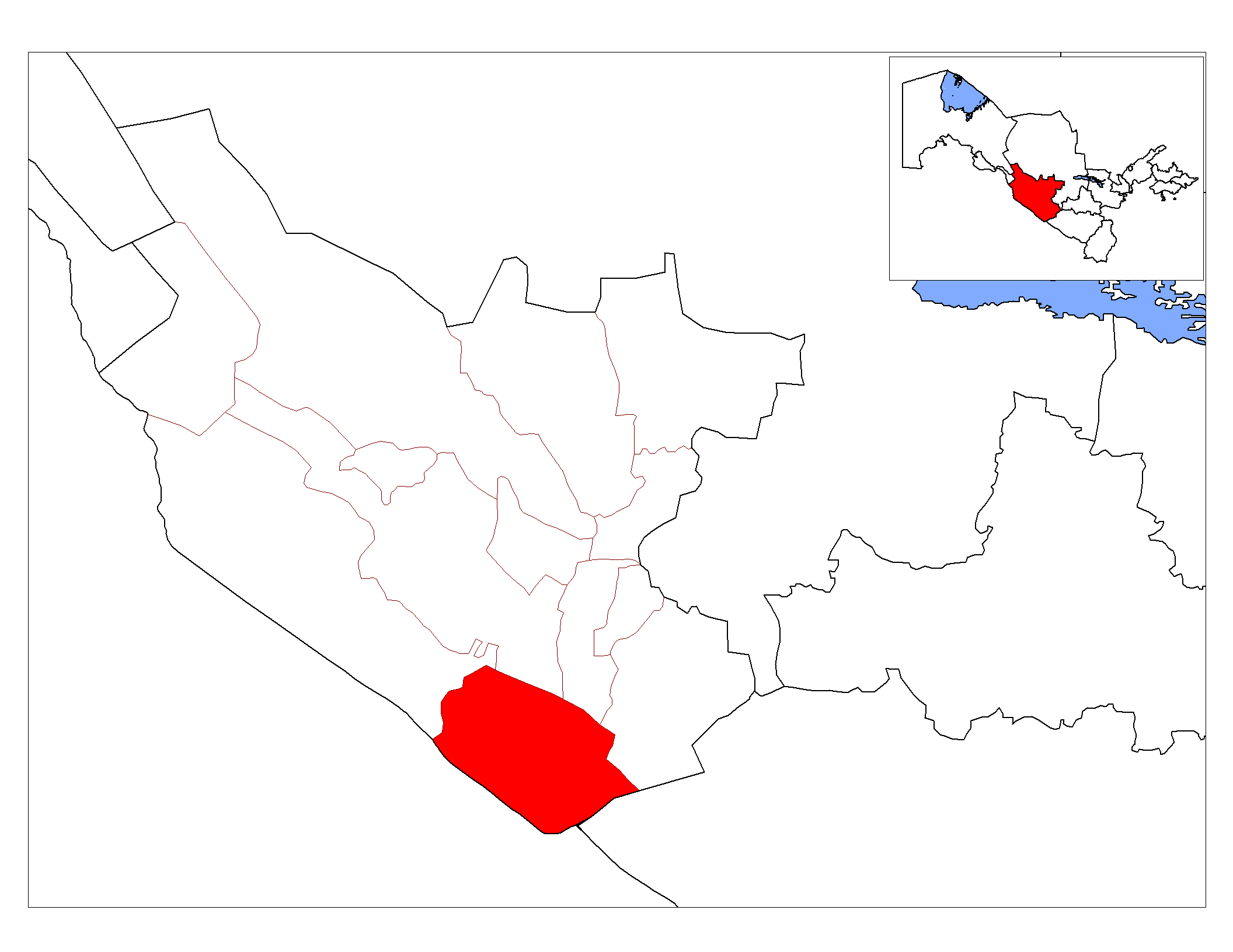 Location map of Olot District in Buxoro Province, Uzbekistan